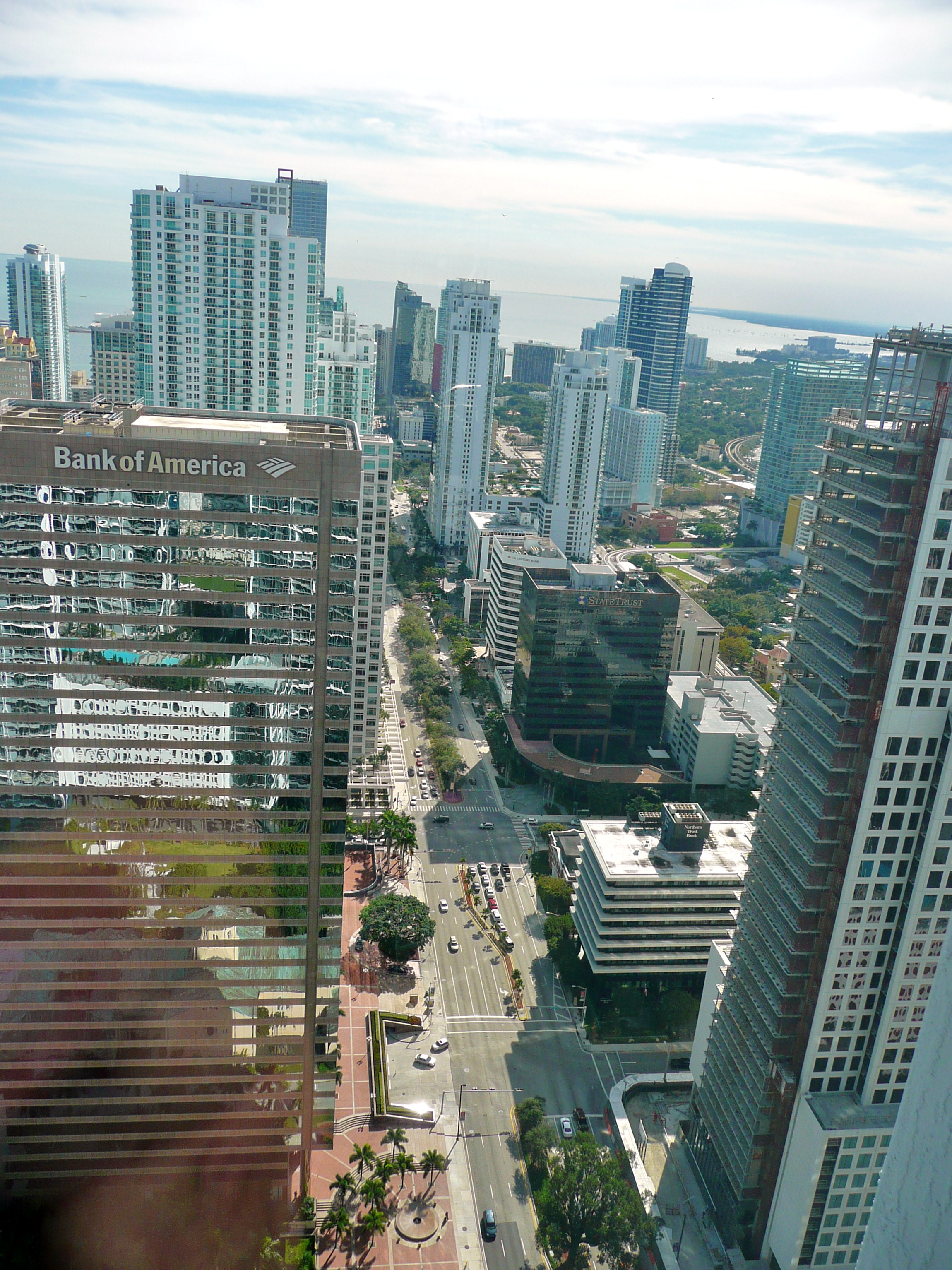 Digital photo taken by Marc Averette. Aerial view of Brickell Avenue in Downtown Miami, Florida, United States.